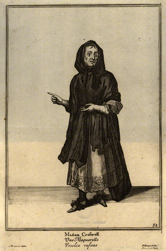 Portrait of Elizabeth Cresswell. Line engraving by Marcellus Laroon 10 1/4 in. x 6 3/4 in. (260 mm x 170 mm) paper size